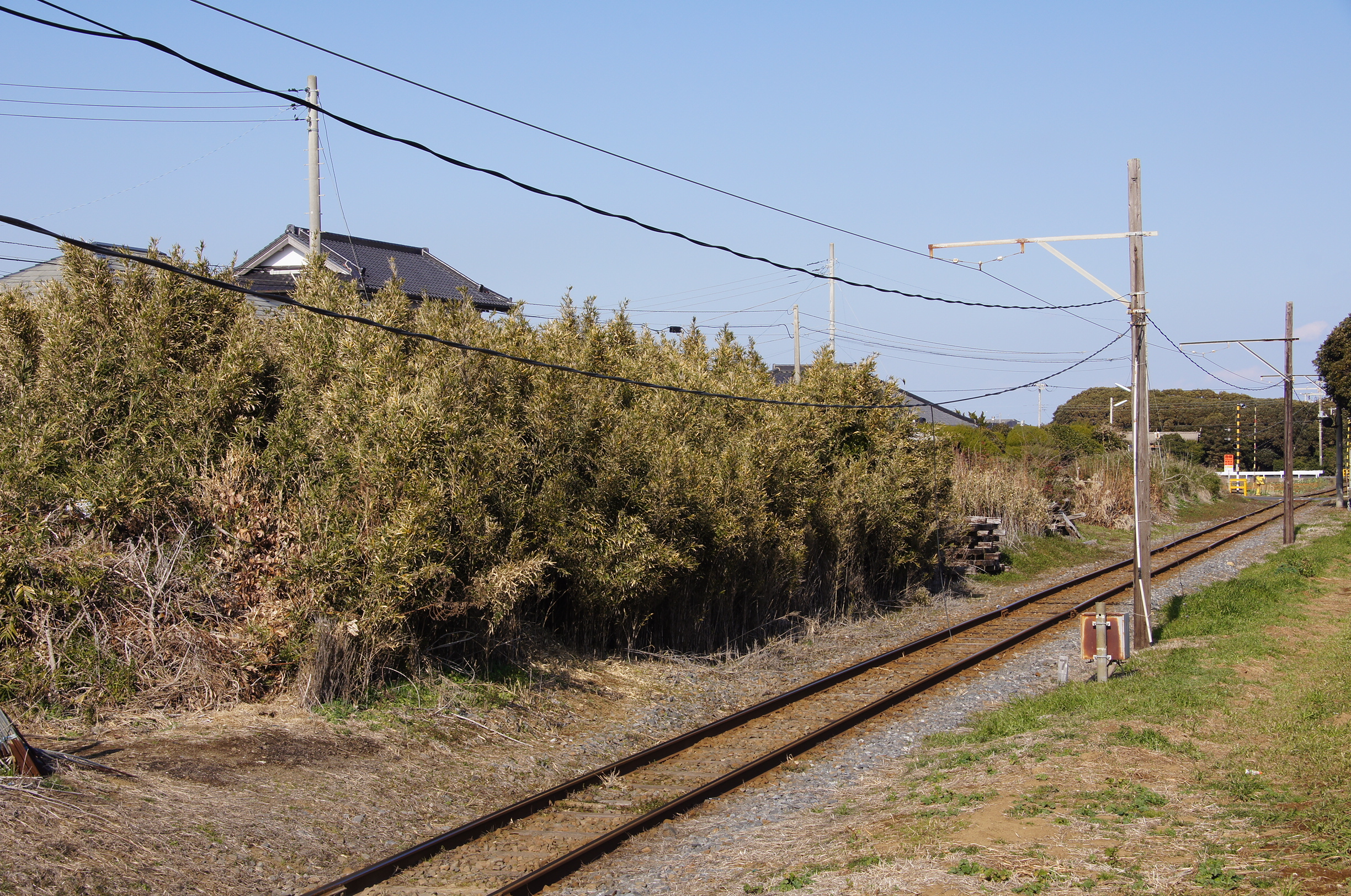 Site of the original Inuboh Station on the Choshi Electric Railway. Located 400 m south of the current station, it closed in 1941.